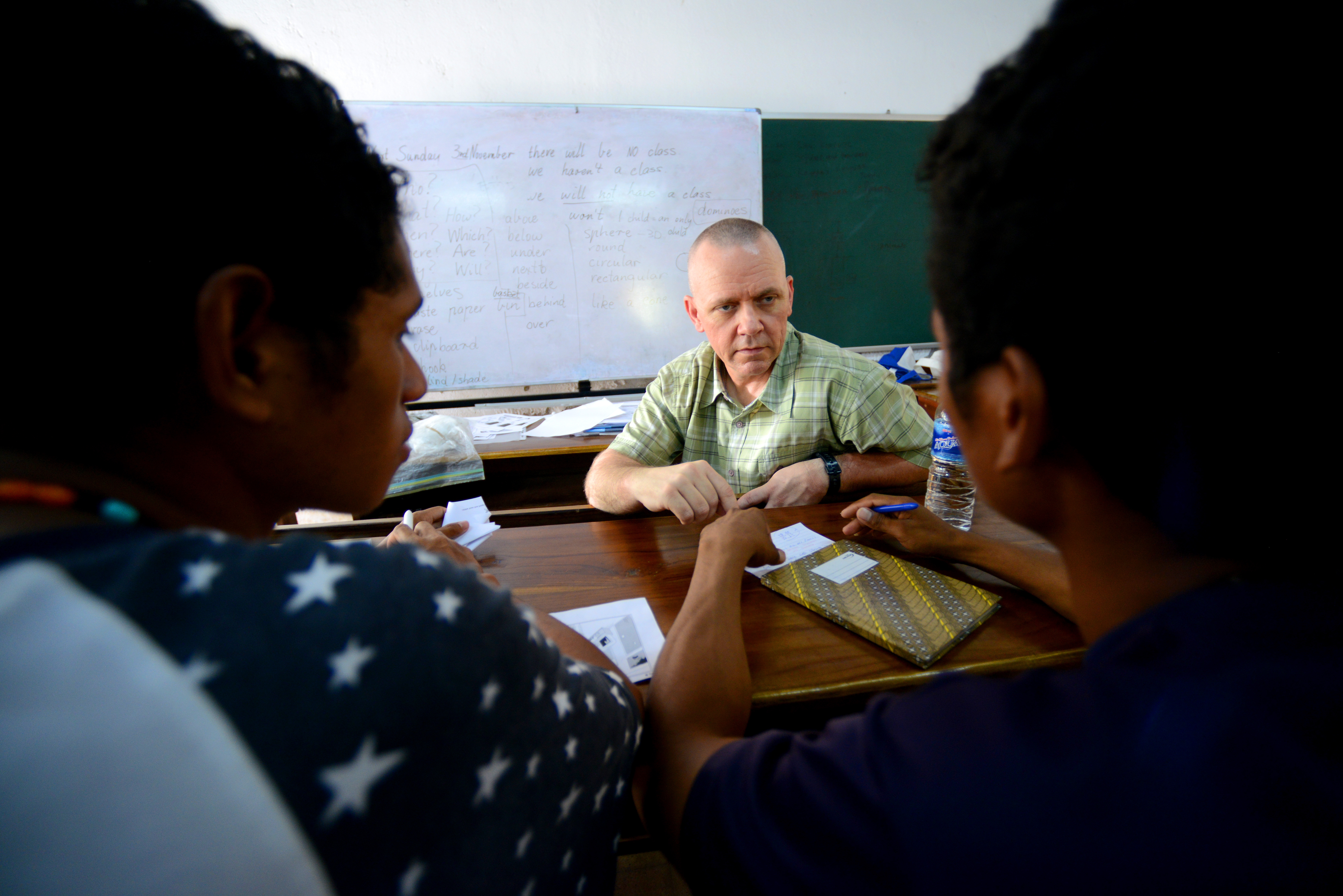 U.S. Navy Capt. Rod Moore, center, 30th Naval Construction Regiment commander, helps two Timorese college students complete an English exercise in Dili, East Timor, Oct. 29, 2013. Moore joined Naval Mobile Construction Battalion 3 for a daylong volunteer opportunity to help 20 Timorese students learn English.